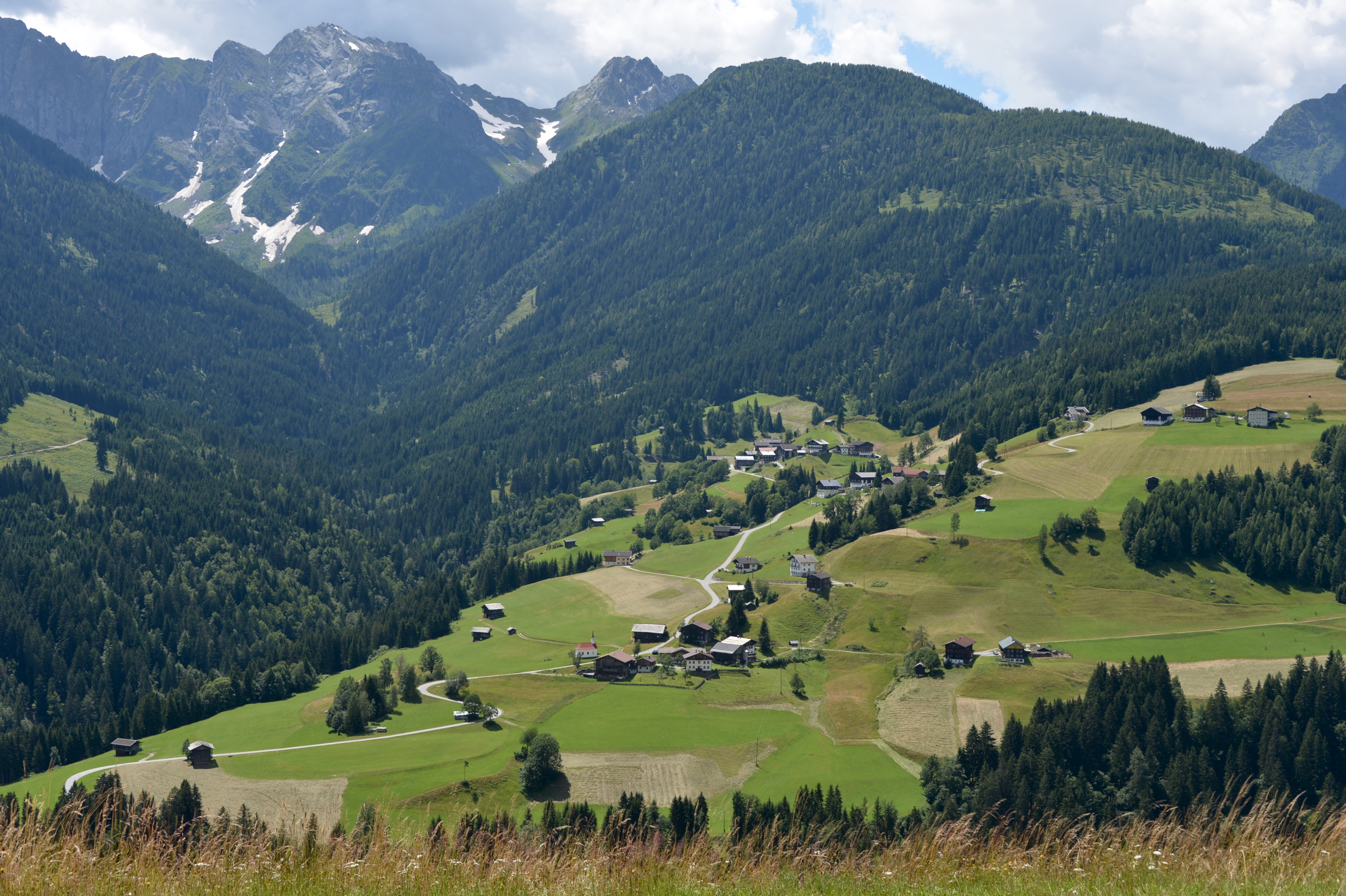 View at Obergail and the Carnic Alps from Tscheltsch #4, municipality Lesachtal, district Hermagor, Carinthia / Austria / EU